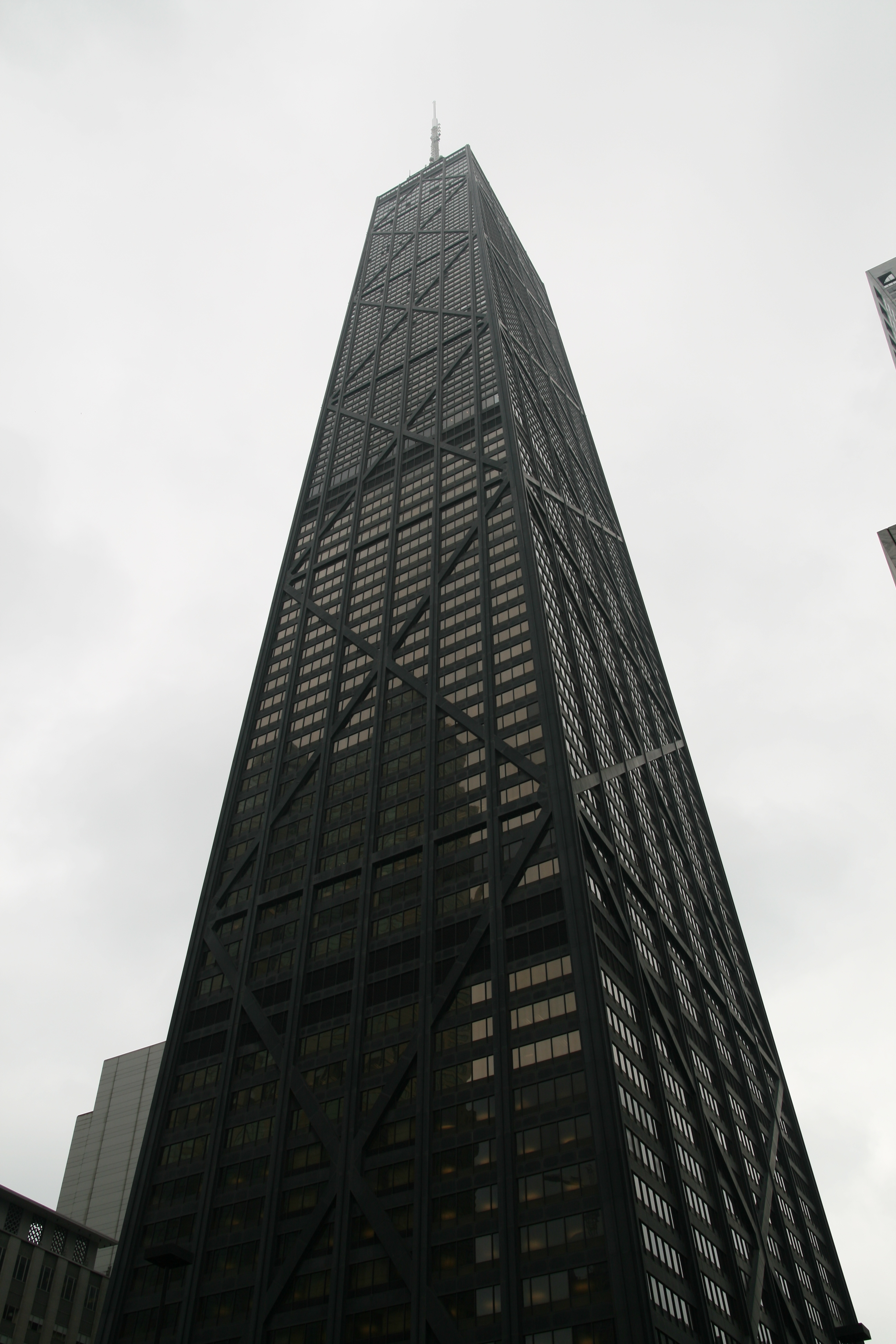 John Hancock Center in Chicago, Illinois